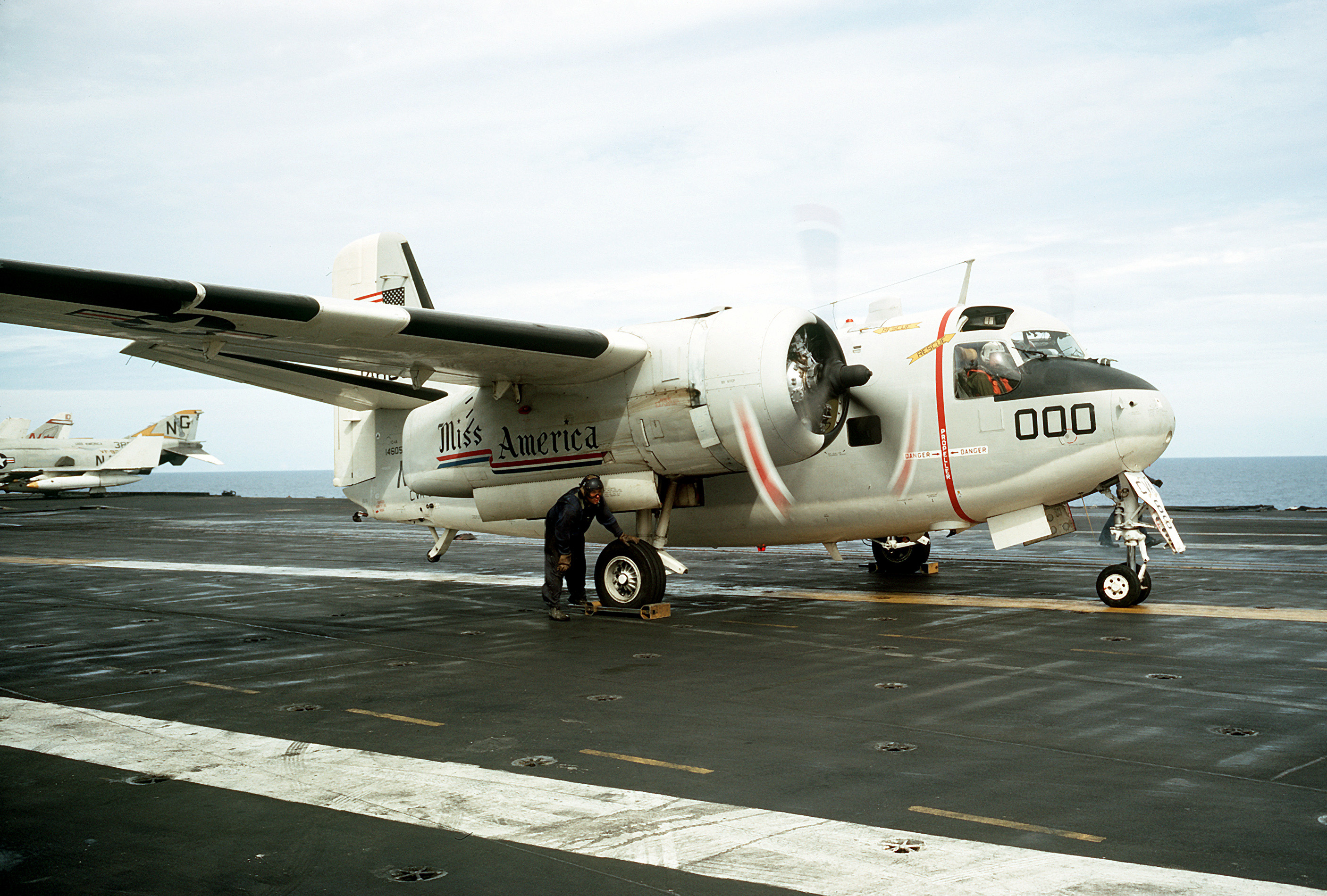 A U.S. Navy Grumman C-1A Trader aircraft on the flight deck of the aircraft carrier USS America (CVA-66), 25 July 1970. America, with assigned Attack Carrier Air Wing 9 (CVW-9), was deployed to Vietnam from 10 April to 21 December 1970.